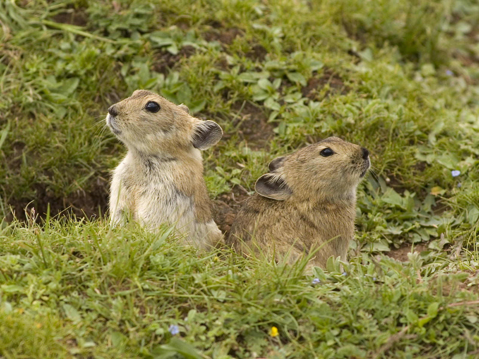 Pika (O. curzoniae) in Kham/eastern Tibet